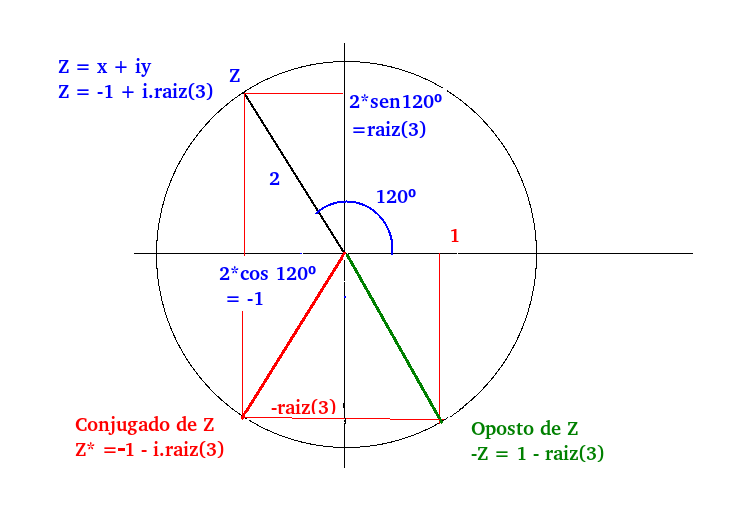 Diagram for a quick visualization of the opost and conjugade of a complex number.